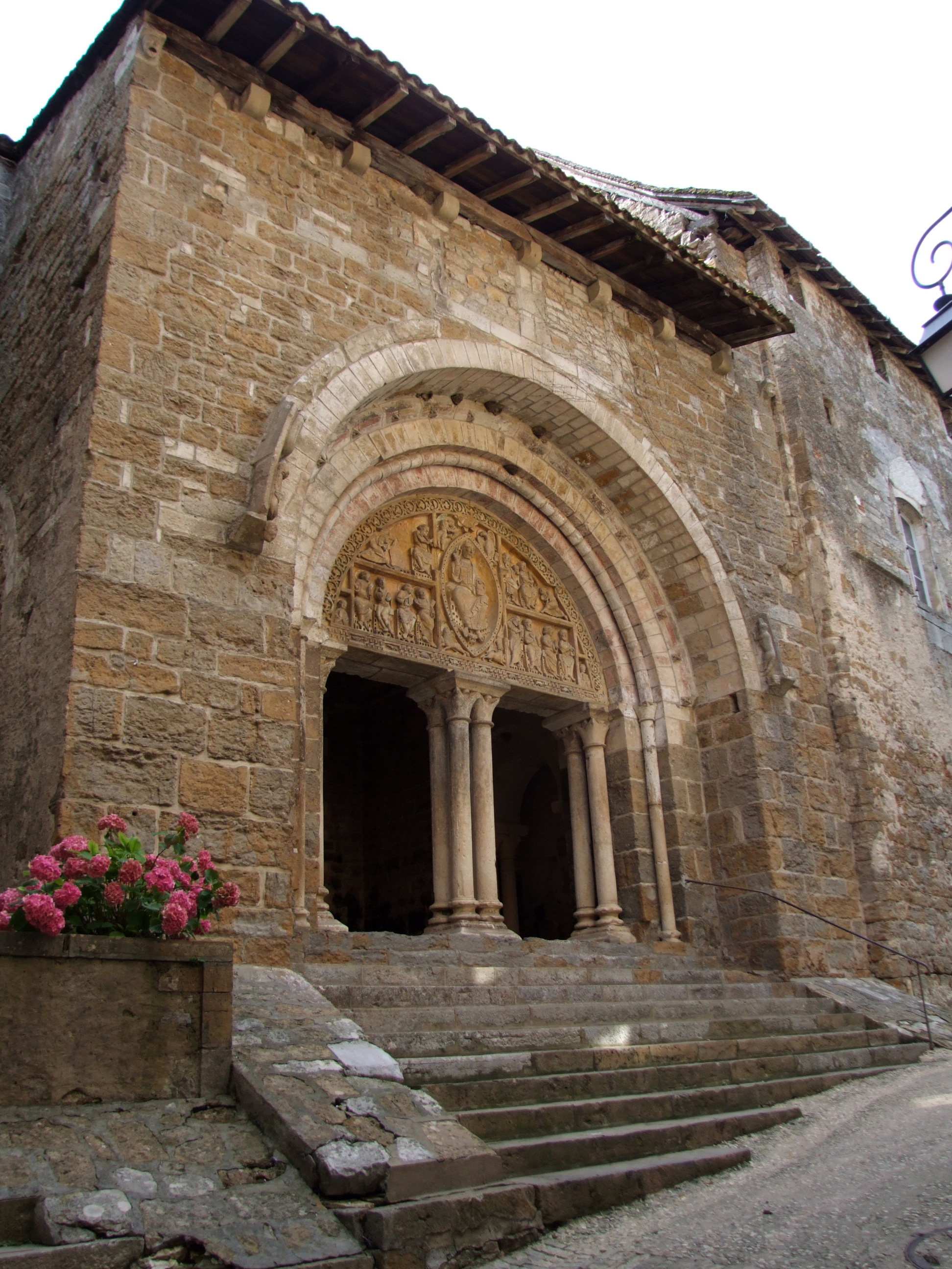 Carennac, Lot, FRANCE